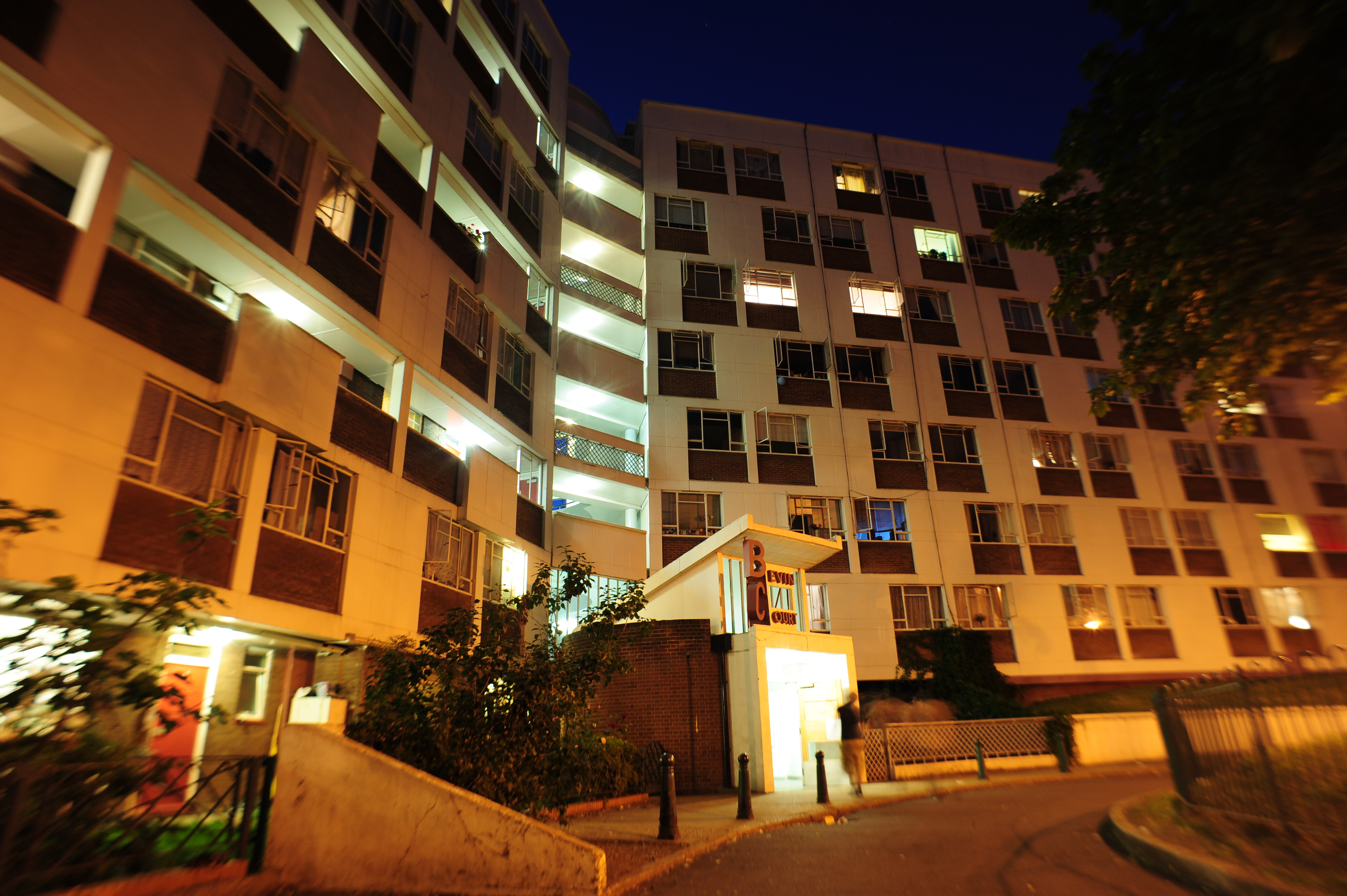 Front exterior of Bevin Court